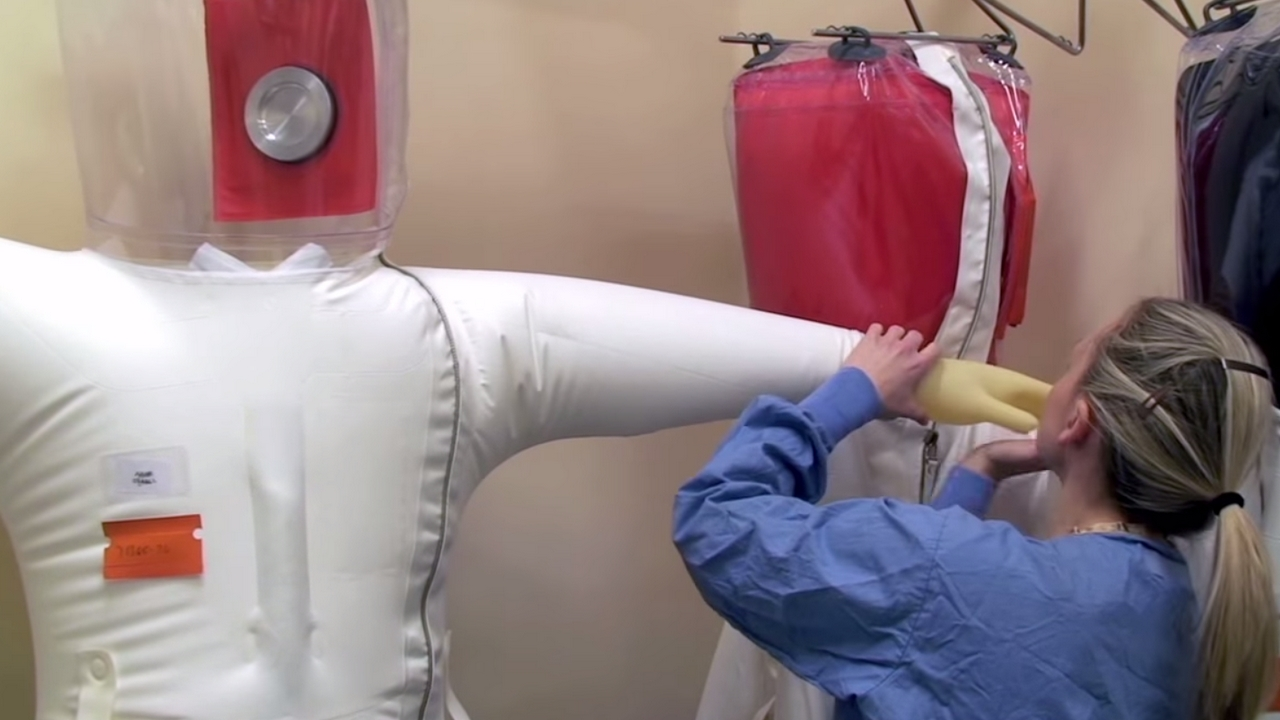 Inspection of positive pressure personnel suit at biosafety level 4 (BSL-4) laboratory of the NIAID Integrated Research Facility (IRF) in Frederick, Maryland. This image is part of "The NIAID Integrated Research Facility in Frederick, Maryland" video. Courtesy: National Institute of Allergy and Infectious Diseases.